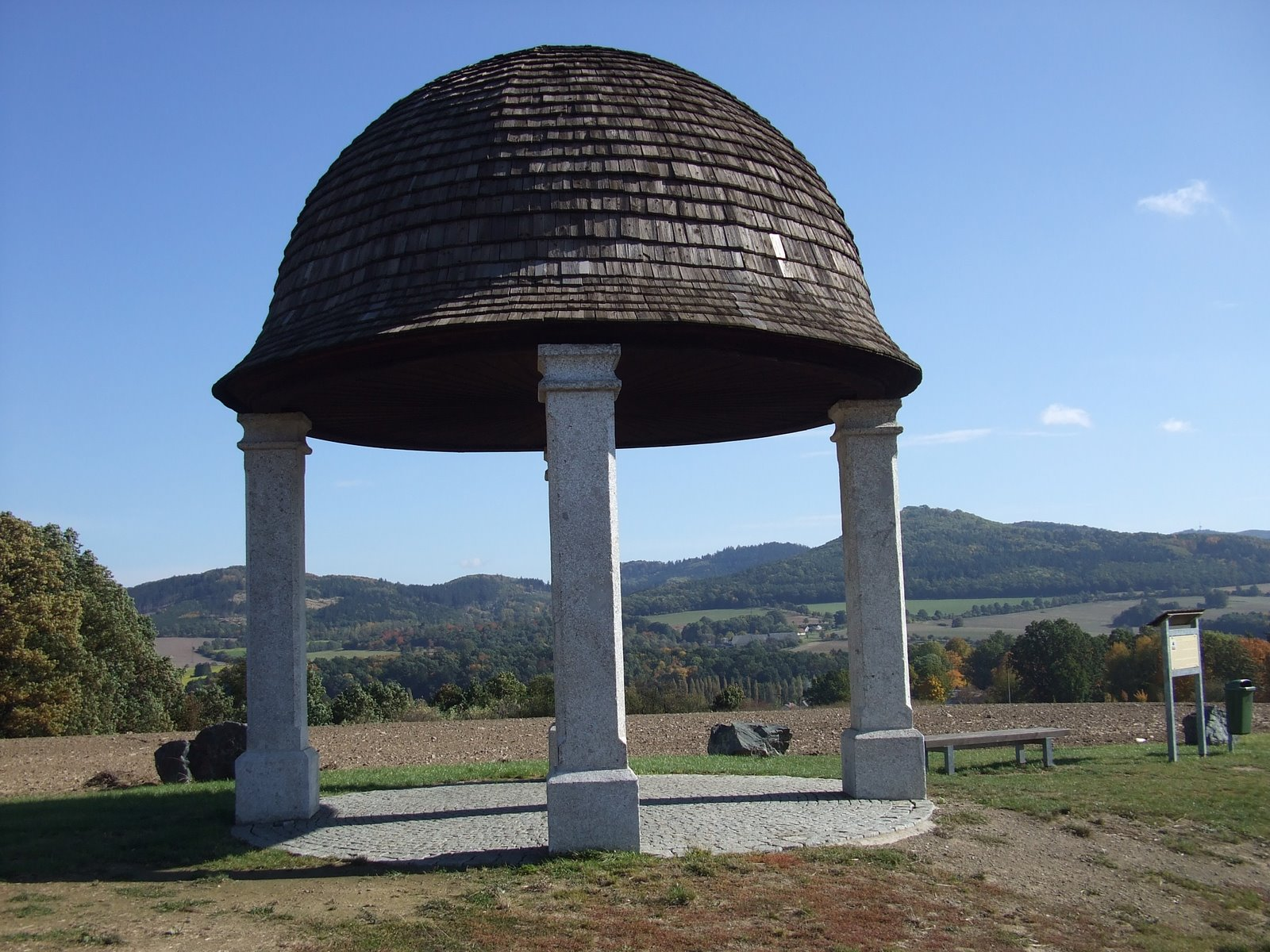 This shelter outside Kout na Šumavě symbolizes the hat of Cardinal Giuliano Cesarini, later Pontiff, who fled from the Battle of Domažlice in 1431, and lost his hat in the process.